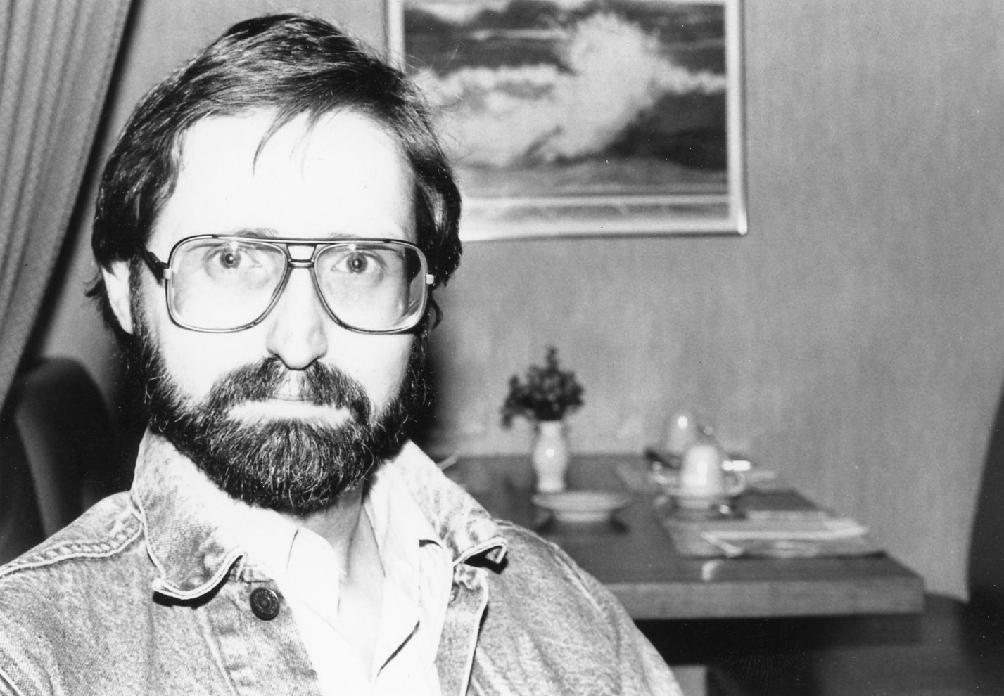 A photograph of screenwriter Michael Reaves taken at a Star Trek Convention.